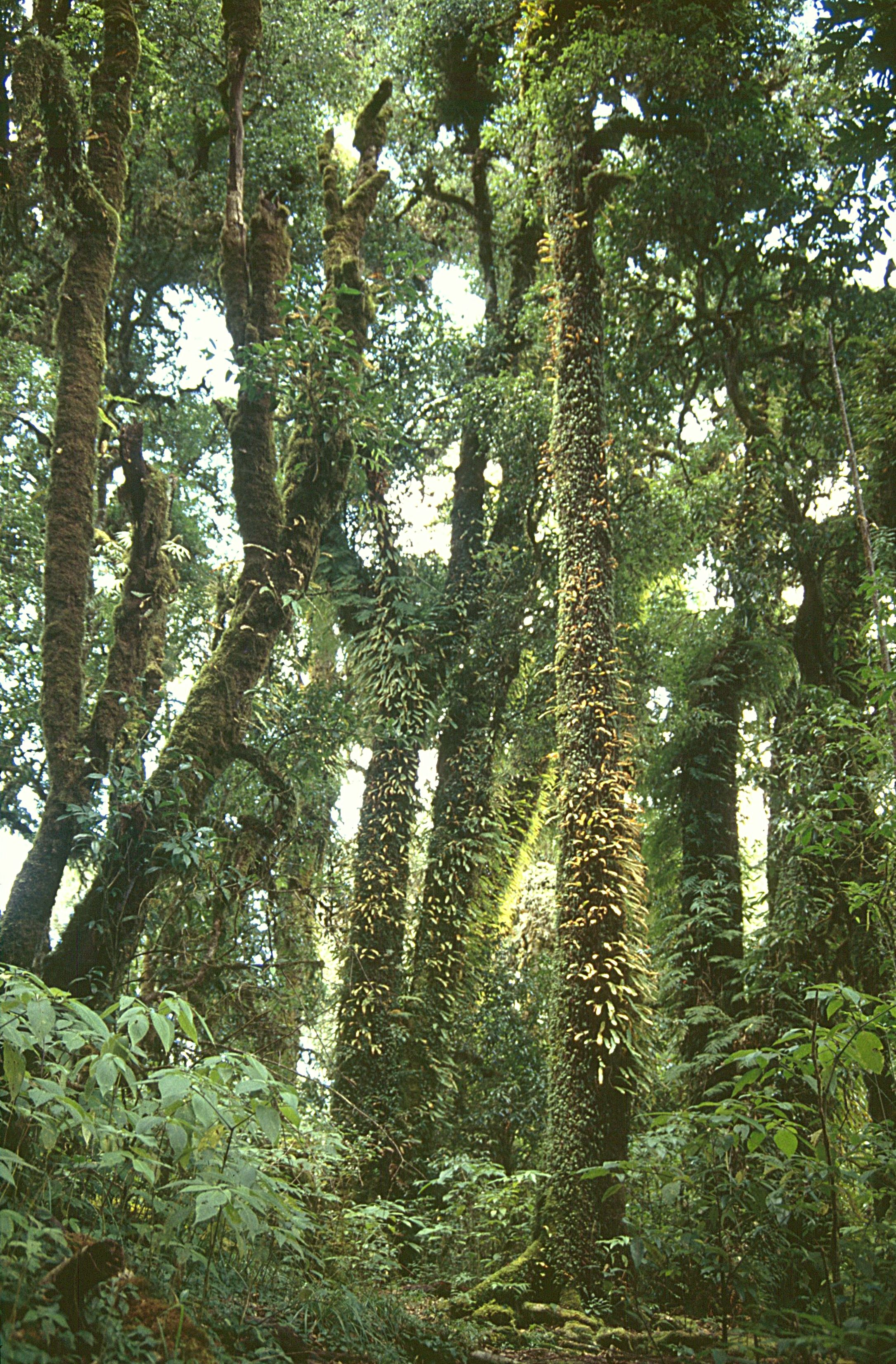 Nebelwald im Doi-Inthanon-Nationalpark